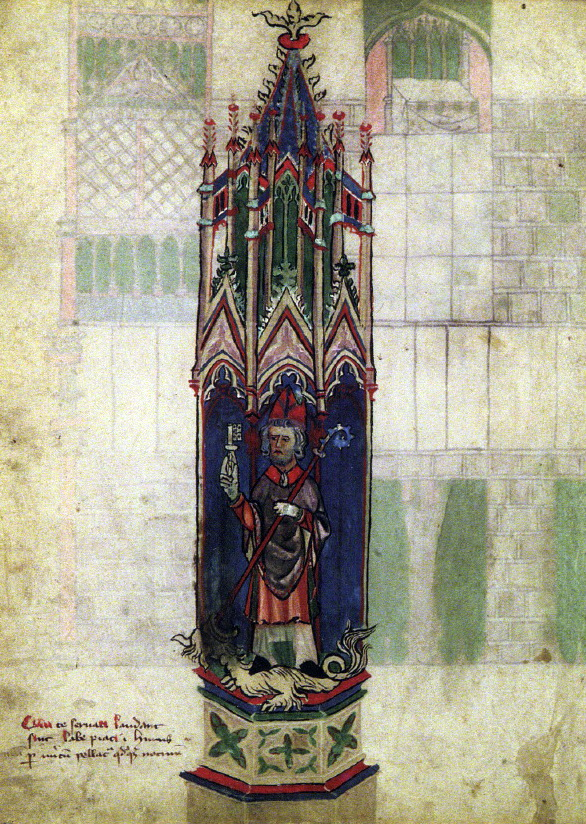 Basilica of Saint Servatius, Maastricht, the Netherlands. Design of around 1460 for a Gothic pedestal and baldachin for the statue of Saint Servatius, perhaps part of the Koningskapel, that was built around this time. Collection: RHCL, Maastricht.